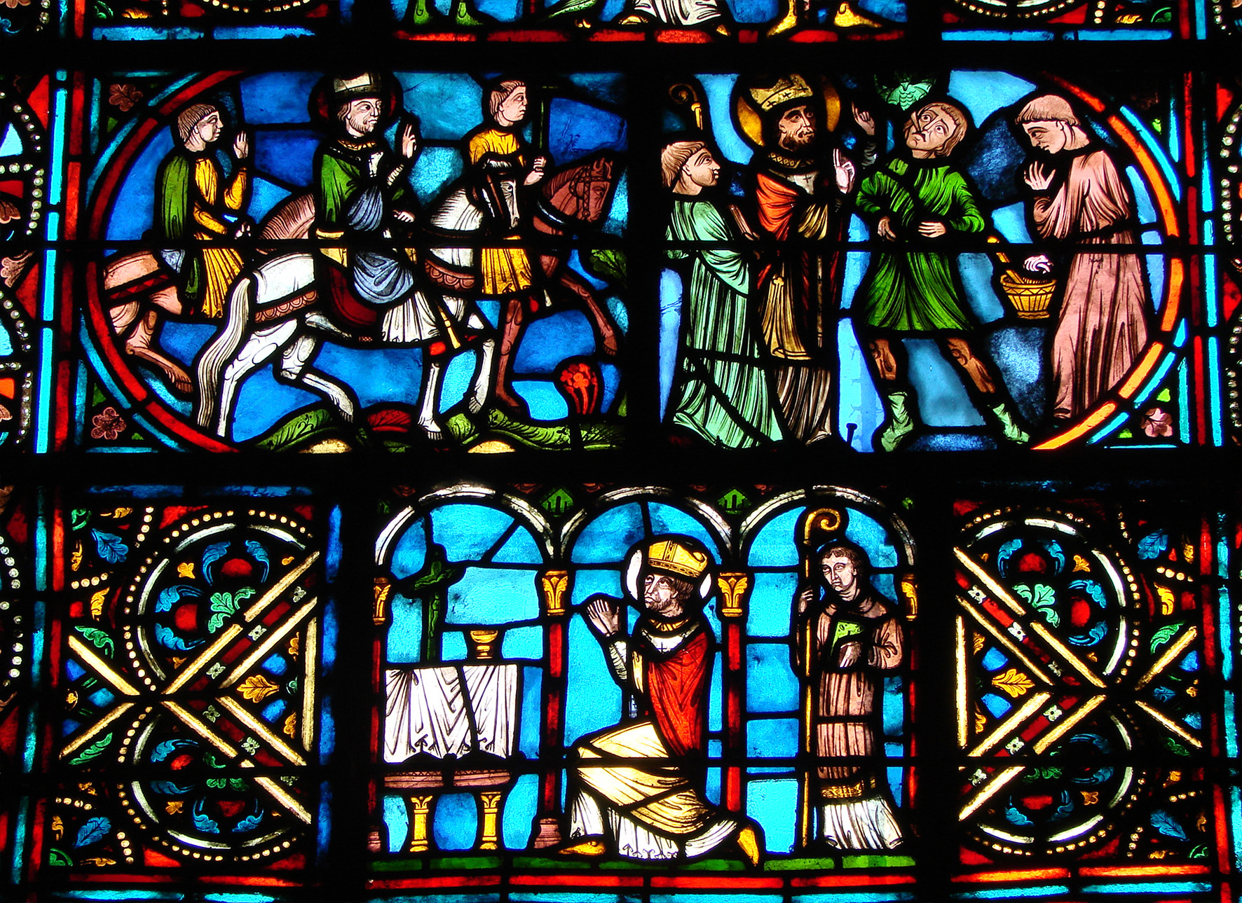 Stained glass window,12th century (?),Saint-Remi basilica, Reims,France.